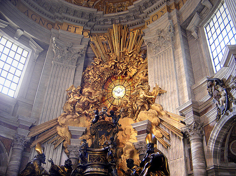 Bernini's "Gloria" surmounting the "Cathedra Petri", also by him. Saint Peter's Basilica, Vatican City.